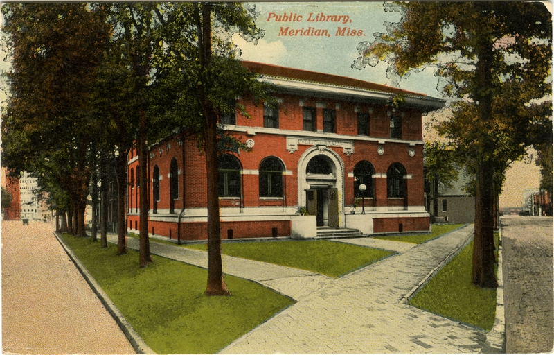 One of Meridian, Mississippi's public Carnegie libraries, which has now been remodelled into the Meridian Museum of Art.